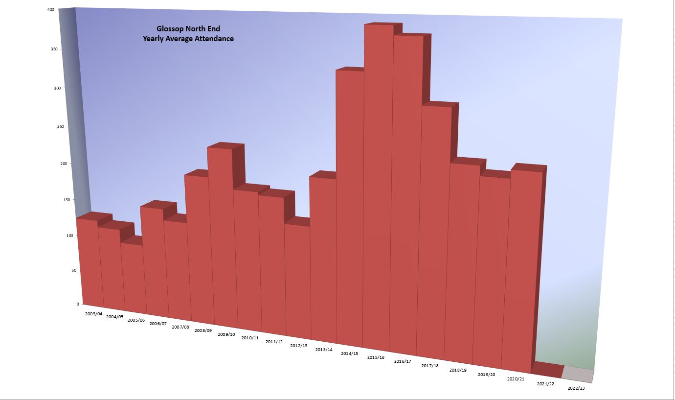 a bar chart created to show the raise and fall of the average attendances at Surrey Street